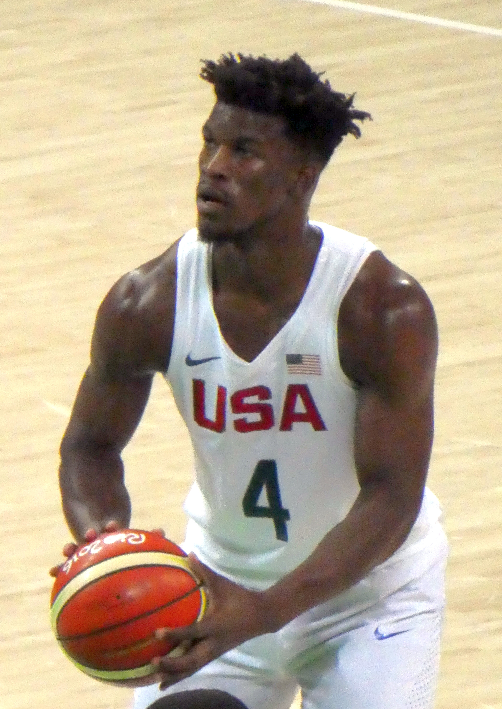 Jimmy Buttler taking a free-throw for USA Olympic basketball team in a match against Serbia